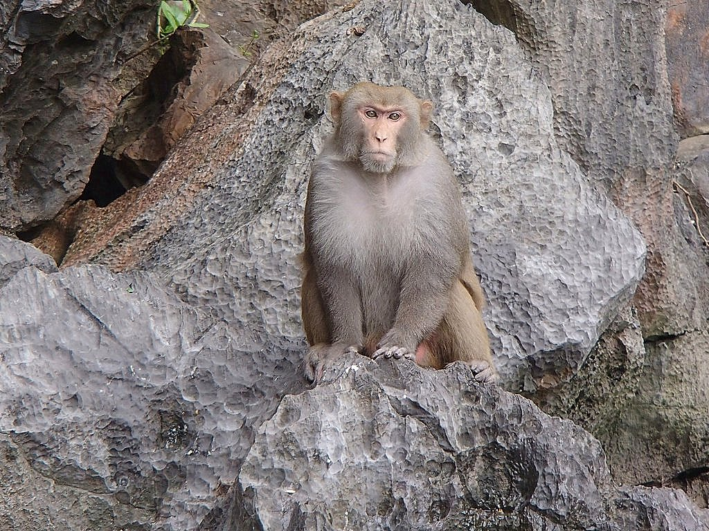 Monkey in Vietnam